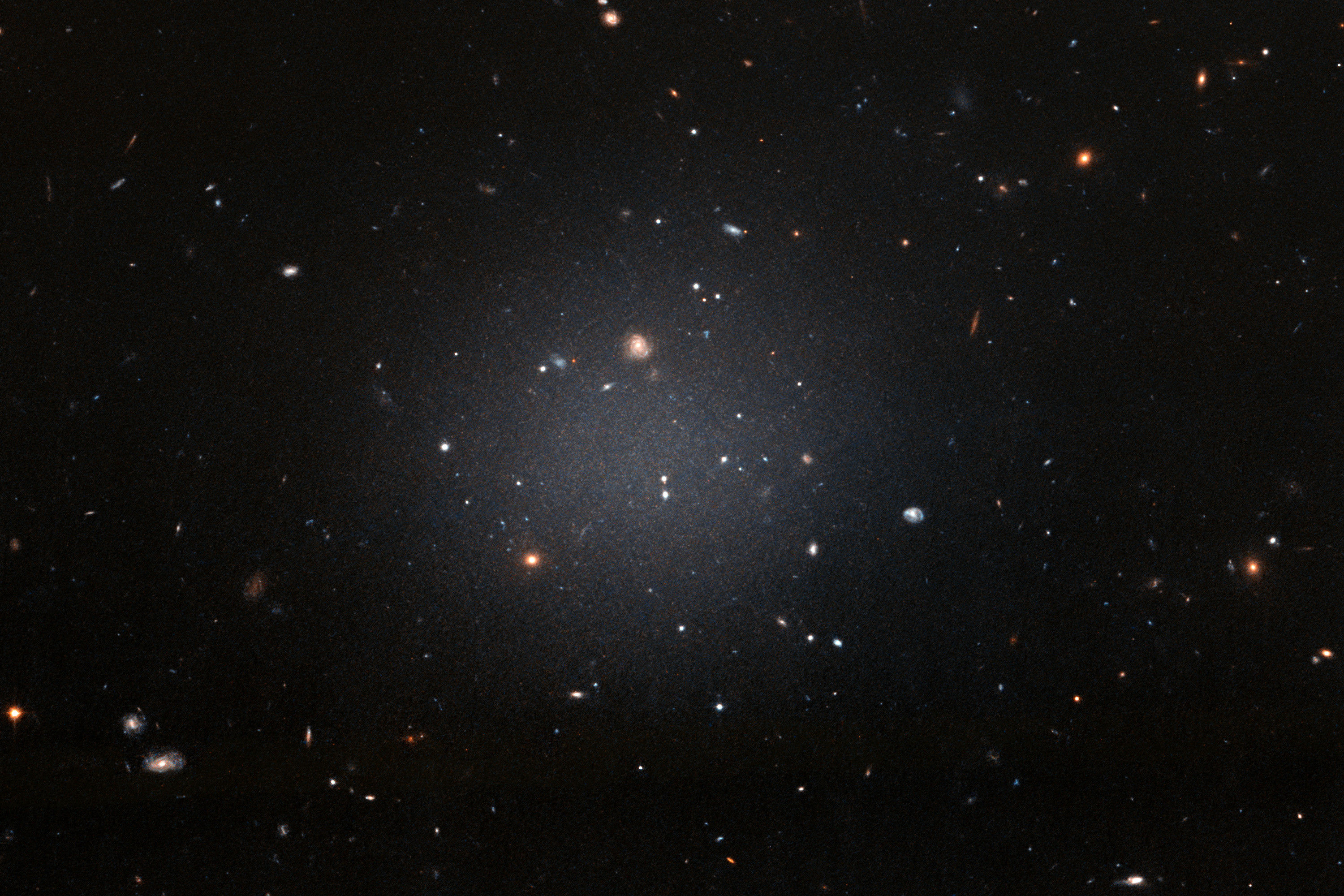 NGC 1052-DF2 resides about 65 million light-years away in the NGC 1052 Group, which is dominated by a massive elliptical galaxy called NGC 1052. This large, fuzzy-looking galaxy is so diffuse that astronomers can clearly see distant galaxies behind it. This ghostly galaxy is not well-formed. It does not look like a typical spiral galaxy, but it does not look like an elliptical galaxy either. Based on the colours of its globular clusters, the galaxy is about 10 billion years old. However, even the globular clusters are strange: they are twice as large as typical groups of stars. All of these oddities pale in comparison to the weirdest aspect of this galaxy: NGC 1052-DF2 is missing most, if not all, of its dark matter. The galaxy contains only a tiny fraction of dark matter that astronomers would expect for a galaxy this size. But how it formed is a complete mystery. Hubble took this image on 16 November 2017 using its Advanced Camera for Surveys.